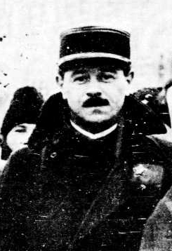 Jacques Sadoul, était un militant communiste français.